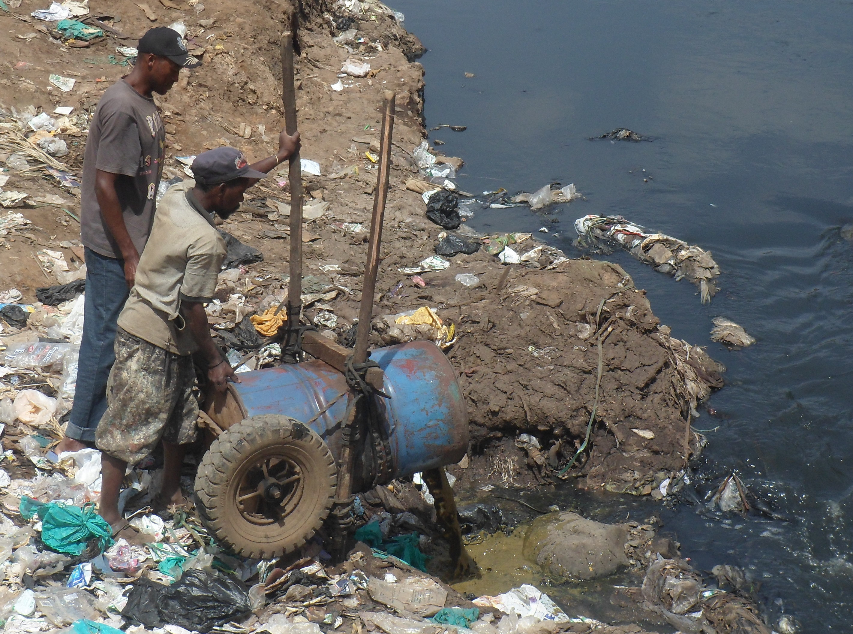 Faecal sludge that has been manually removed from pits is dumped into the local river at the Korogocho slum in Nairobi, Kenya.